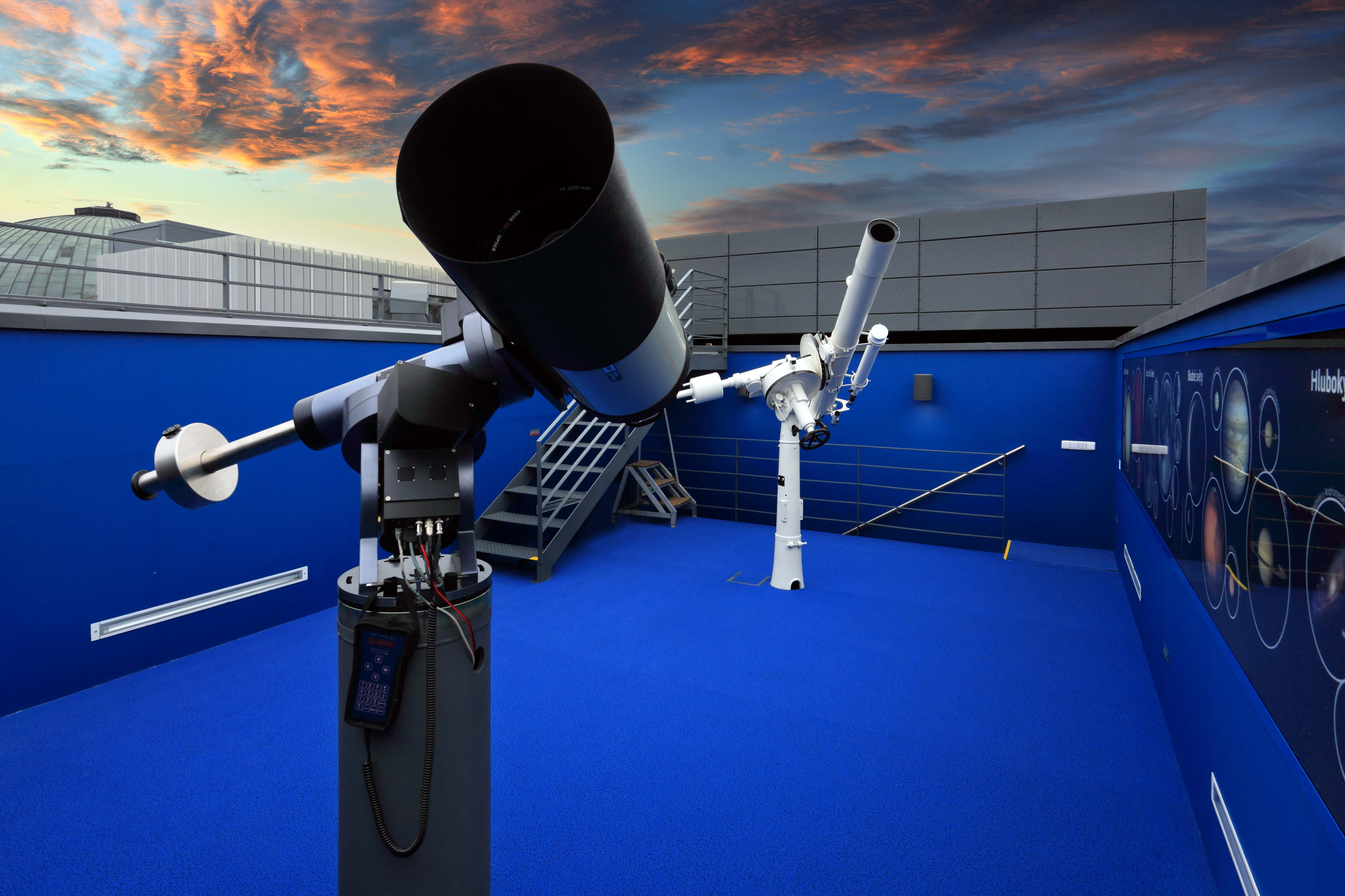 Interior of the Brno Observatory and Planetarium building at Kraví hora in Brno, Czech Republic